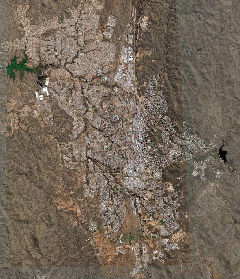 satellite picture of the city of Windhoek Namibia. the city center is visible in the right center of the image